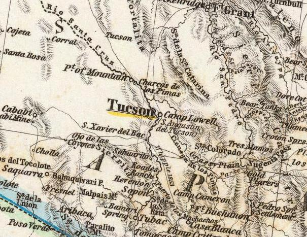 Map showing Tucson, AZ and surrounding towns Fair Use Rationale: Either the copyright is expired, since this was made in 1875, or this qualifies as "Fair Use" since only a *tiny fraction* of the map is being shown. Captioned As {